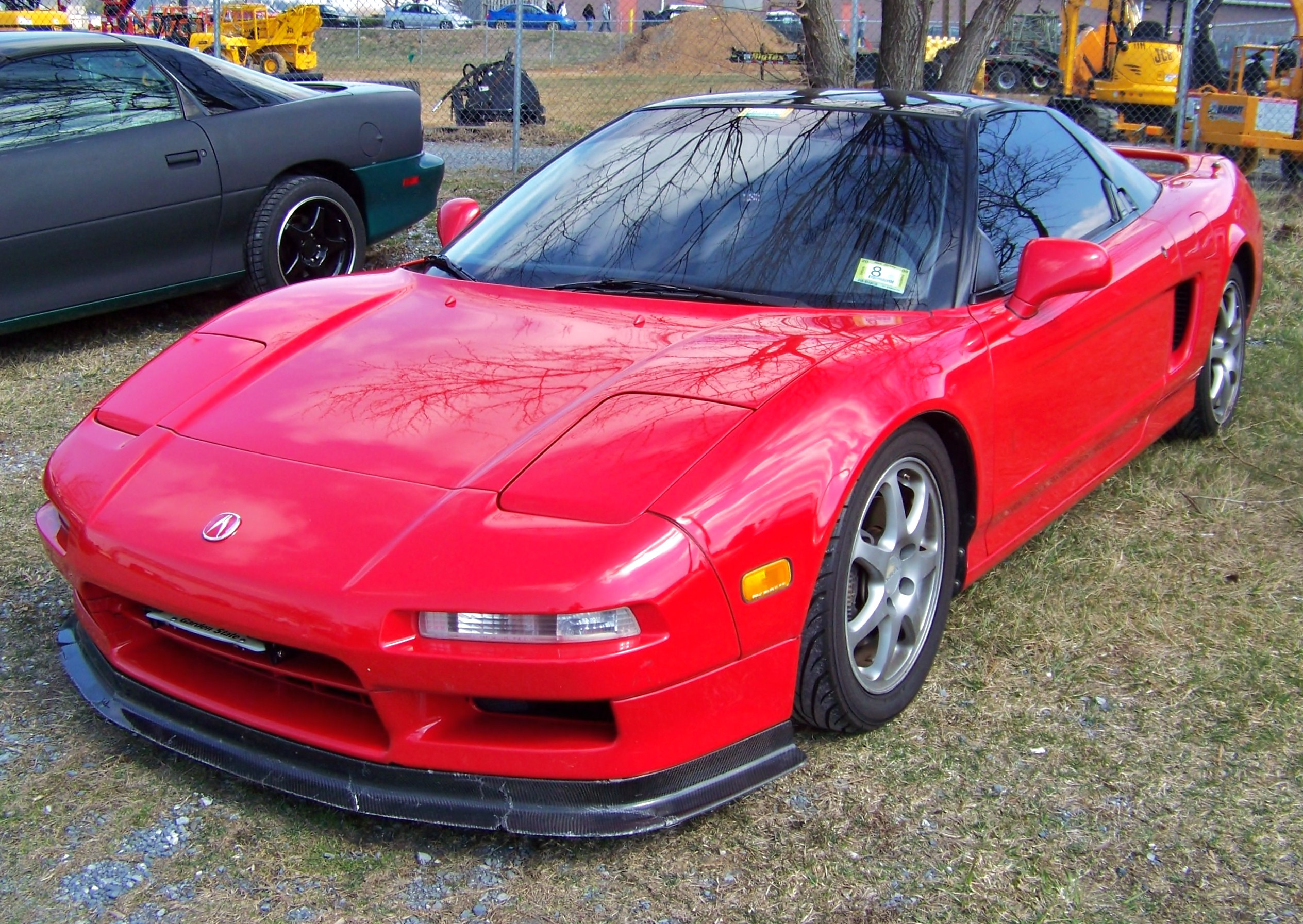 An Acura NSX. They are nice cars but this one was definitely beat.